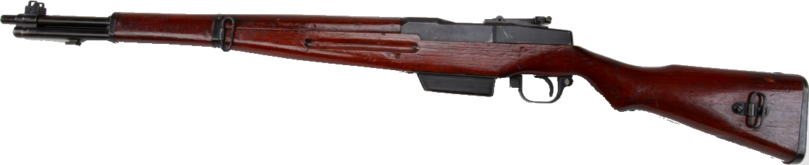 A photoshoot of the japanese Type 4 rifle.